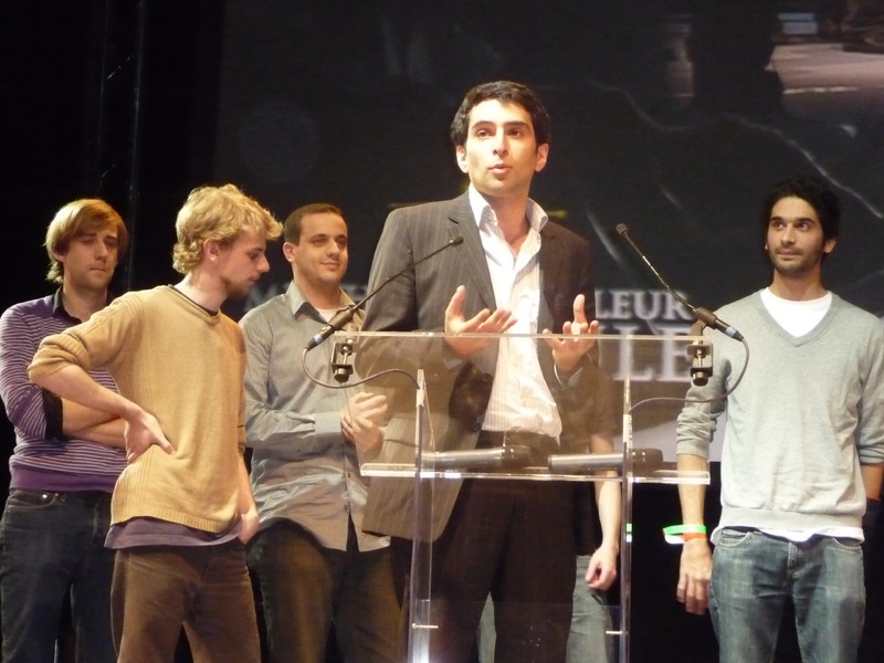 Edge (Mobigame) team at the 2008 Festival du Jeu Vidéo (FJV) awards